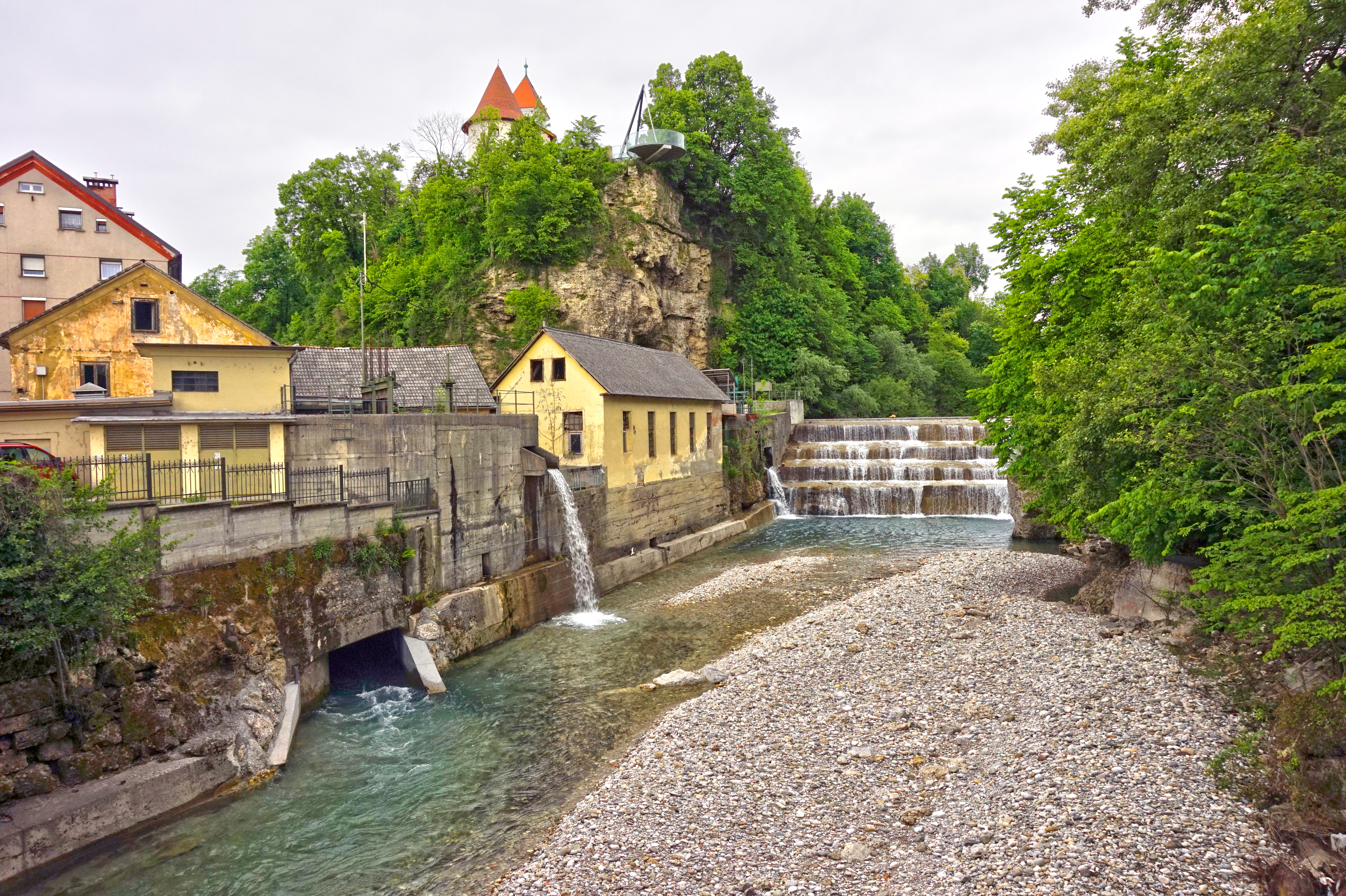 Kokra river in Kranj, Slovenia. This photograph was taken with a Sony Alpha a5000.